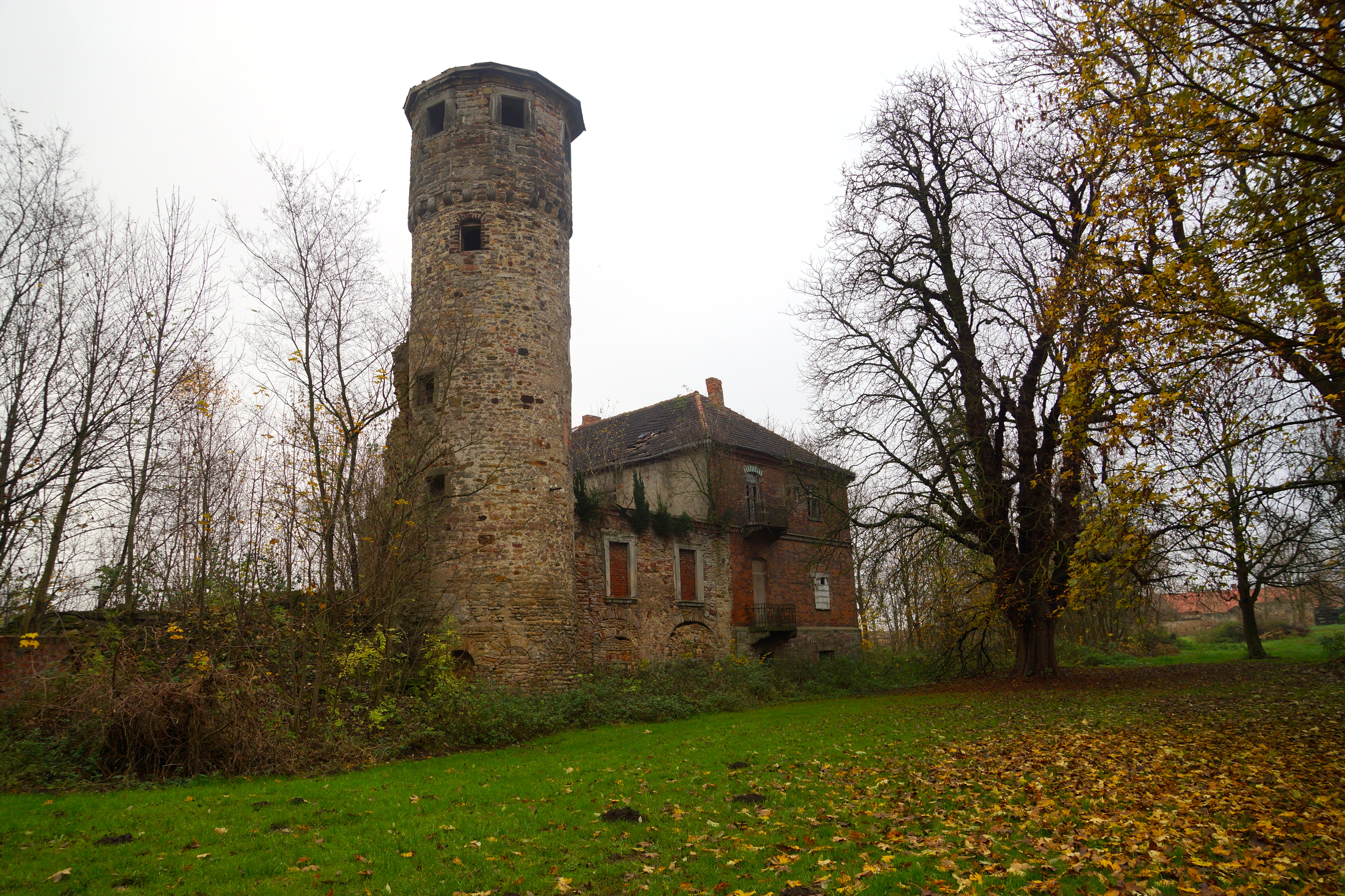 Erxleben (Eggenstedt), Germany: Eggenstedt Hall, south side